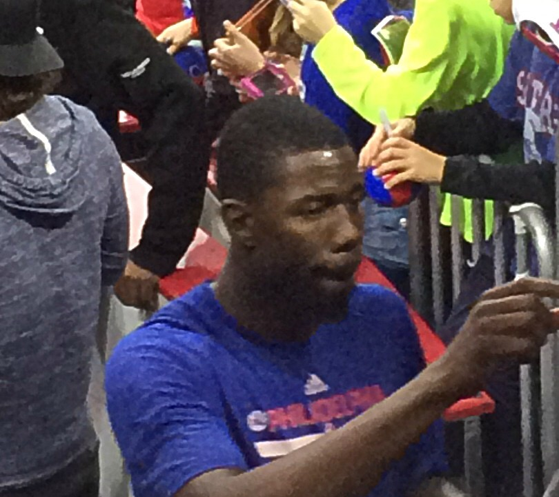 Henry Sims with the 76ers